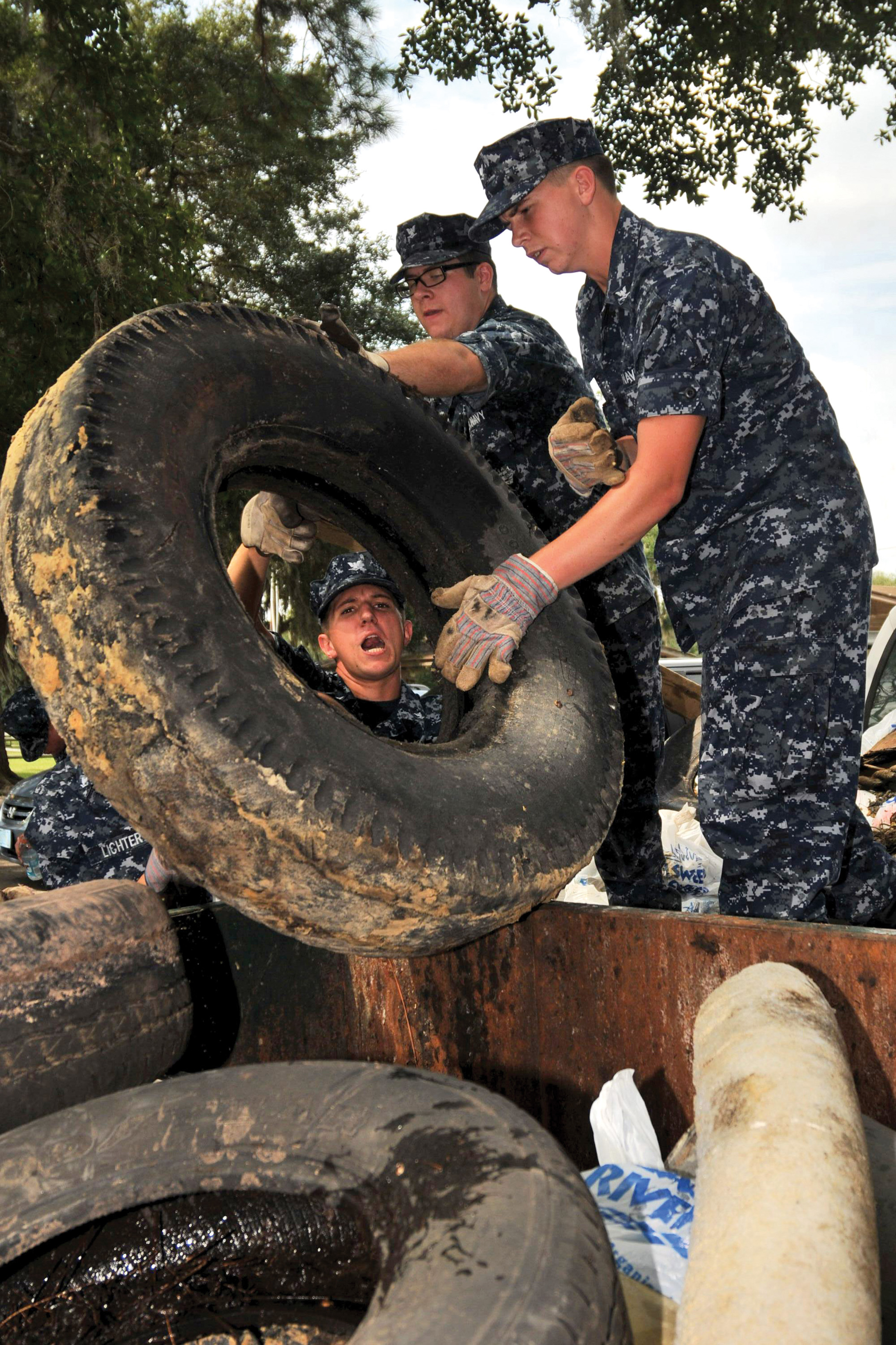 CHARLESTON, S.C. (Sept. 17, 2009) Naval Nuclear Power Training Command student volunteers dispose of used tires littering the waterways of Naval Weapons Station Charleston. The students volunteered as part of the Beach Sweep/River Sweep, a worldwide litter cleanup event involving several hundred thousand volunteers. (U.S. Navy photo by Machinist's Mate 3rd Class Juan Pinalez/Released)